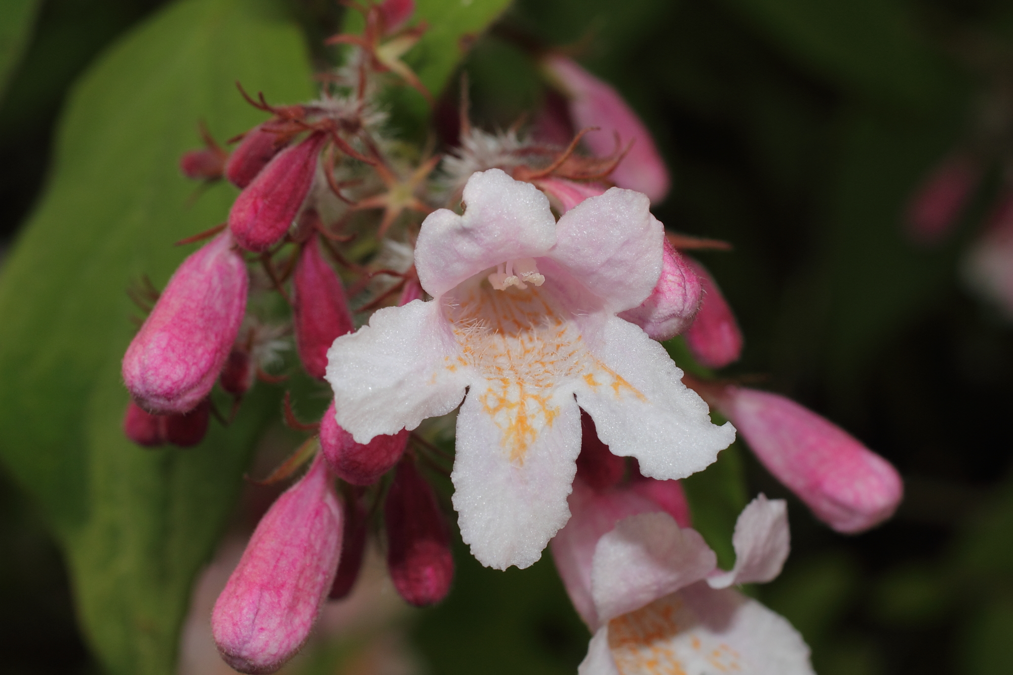 Flower of Kolkwitzia amabilis